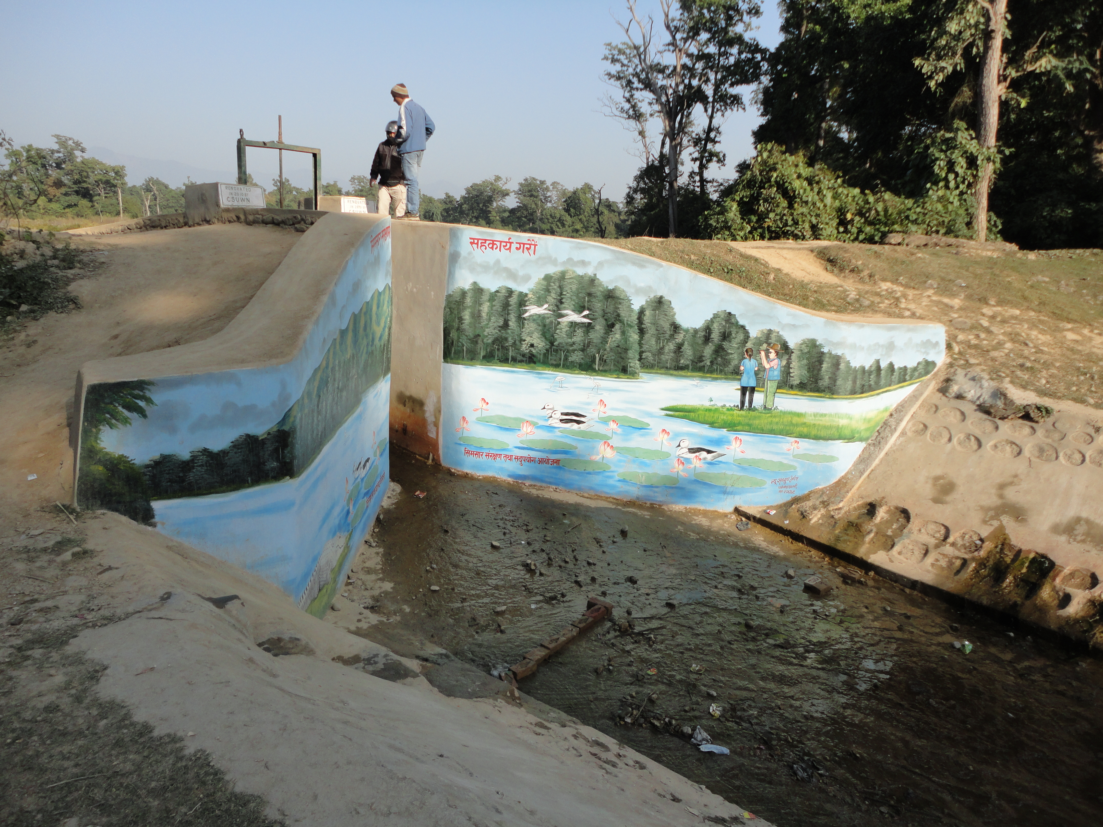 The outlet of Ghodaghodi Lake in western Nepal